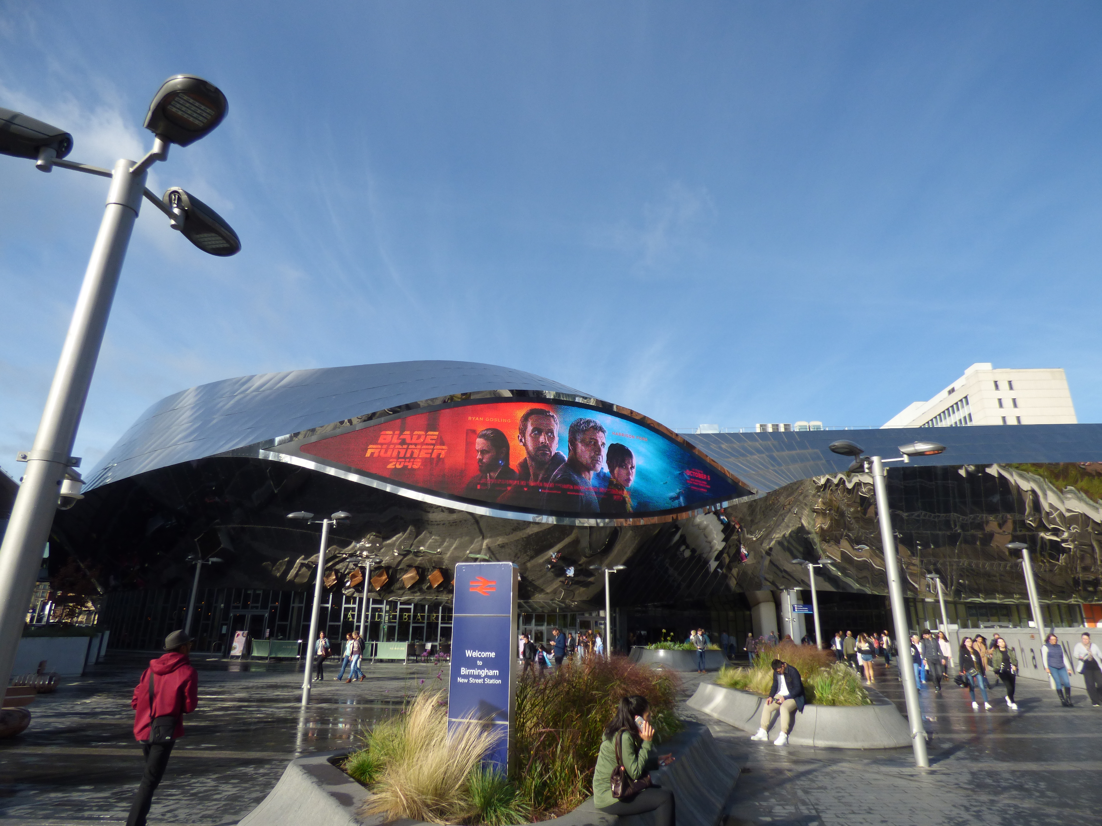 Birmingham New Street Station - Blade Runner 2049. Seen on the media eye facing the Bullring, as I was heading to Coventry (again). I will be seeing the movie soon.